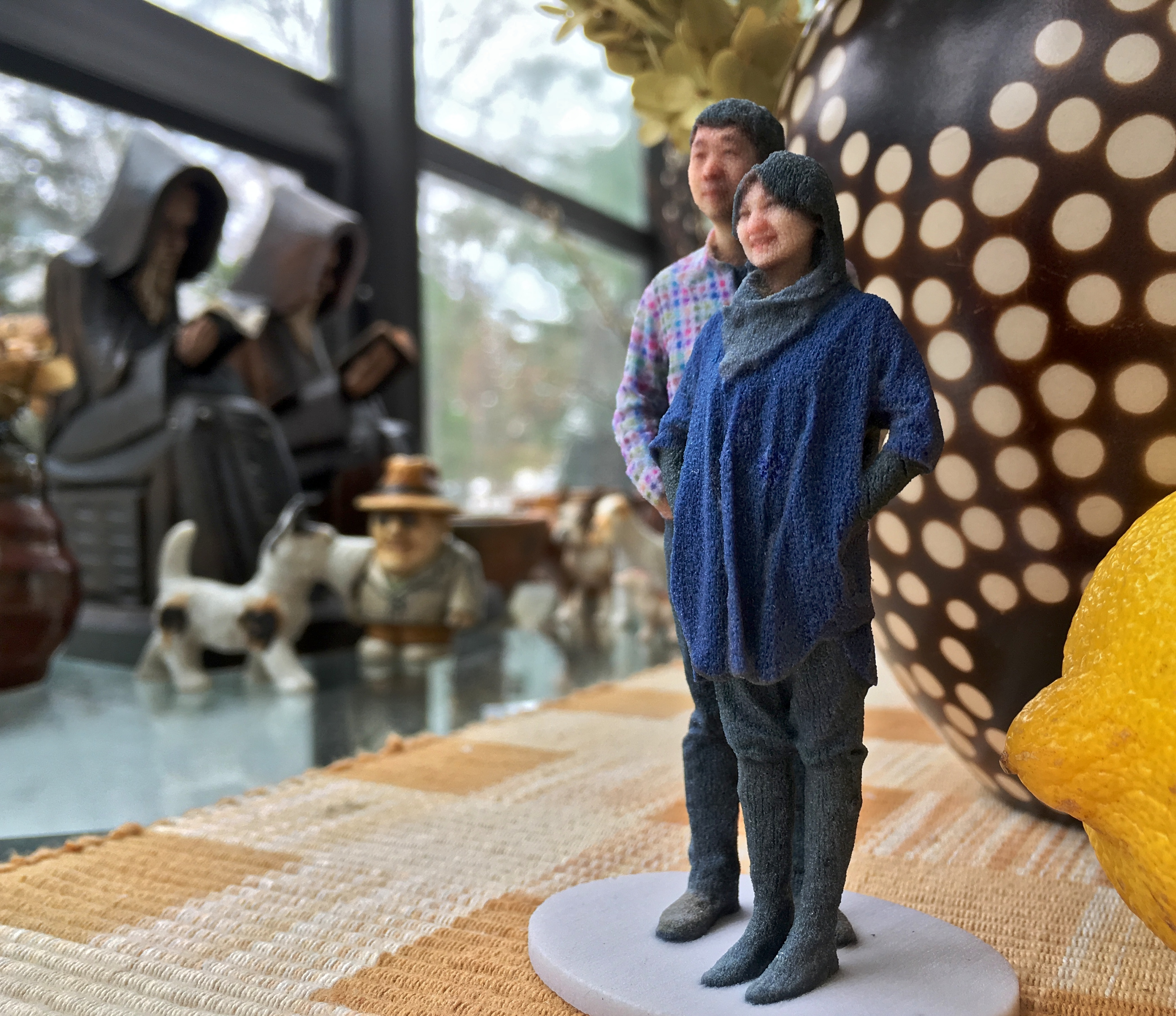 3D selfie in 1:20 scale printed by Shapeways, created by Madurodam miniature park from 2D pictures taken at its Fantasitron photo booth. The Full Color Sandstone printing technique is a form of Powder bed and inkjet head 3D printing.